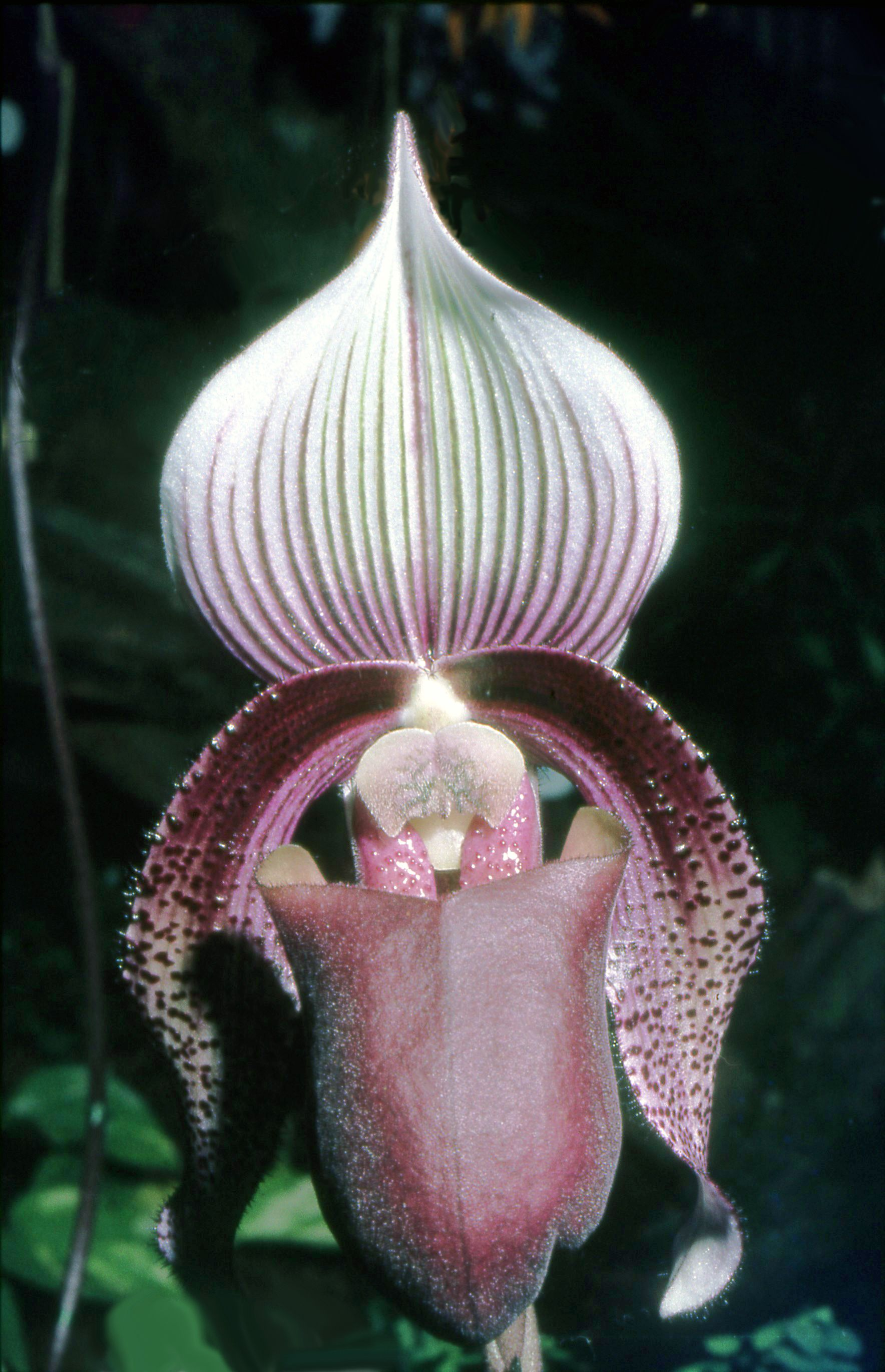 Paphiopedilum superbiens - flower